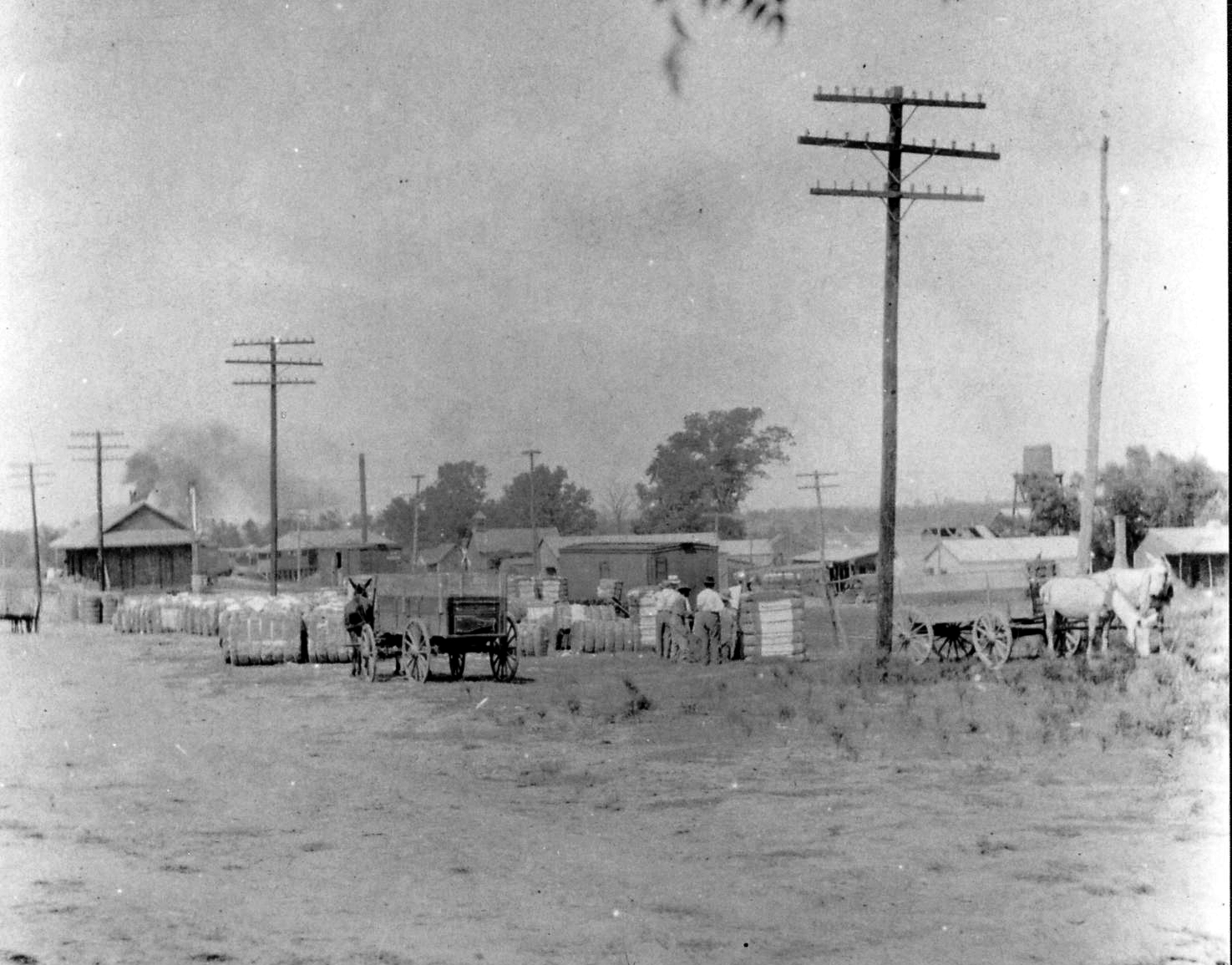 Cotton bales near Flora Railroad Depot, Flora, Madison County, Mississippi, circa 1915.